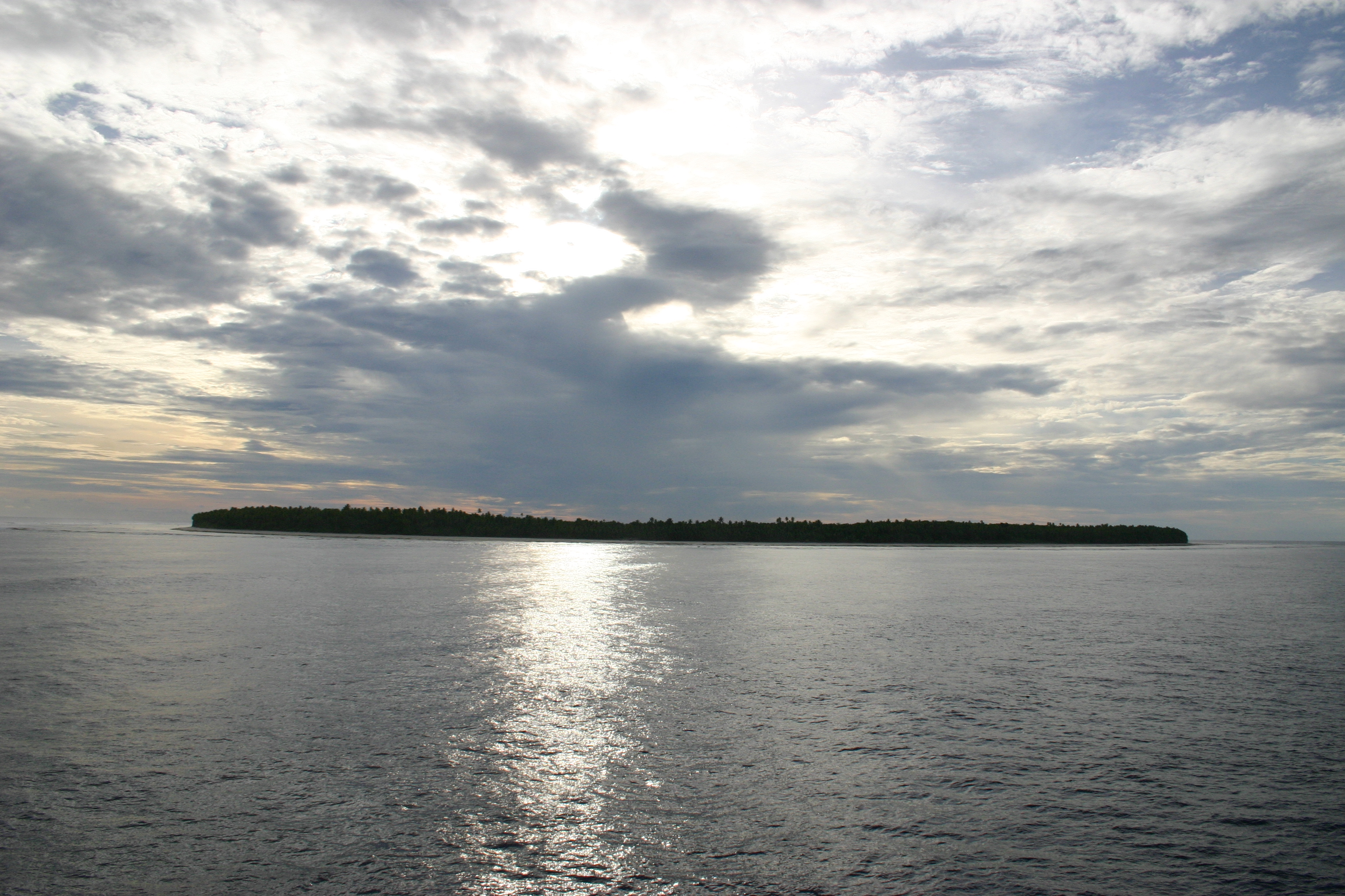 View of Swains Island, American Samoa